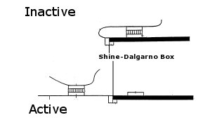 Drawing from PCT Patent Application No. WO 92/13070 to Lechner